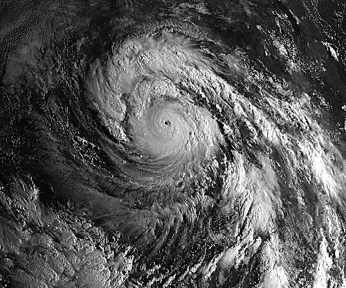 Hurricane Linda off Baja in the morning.